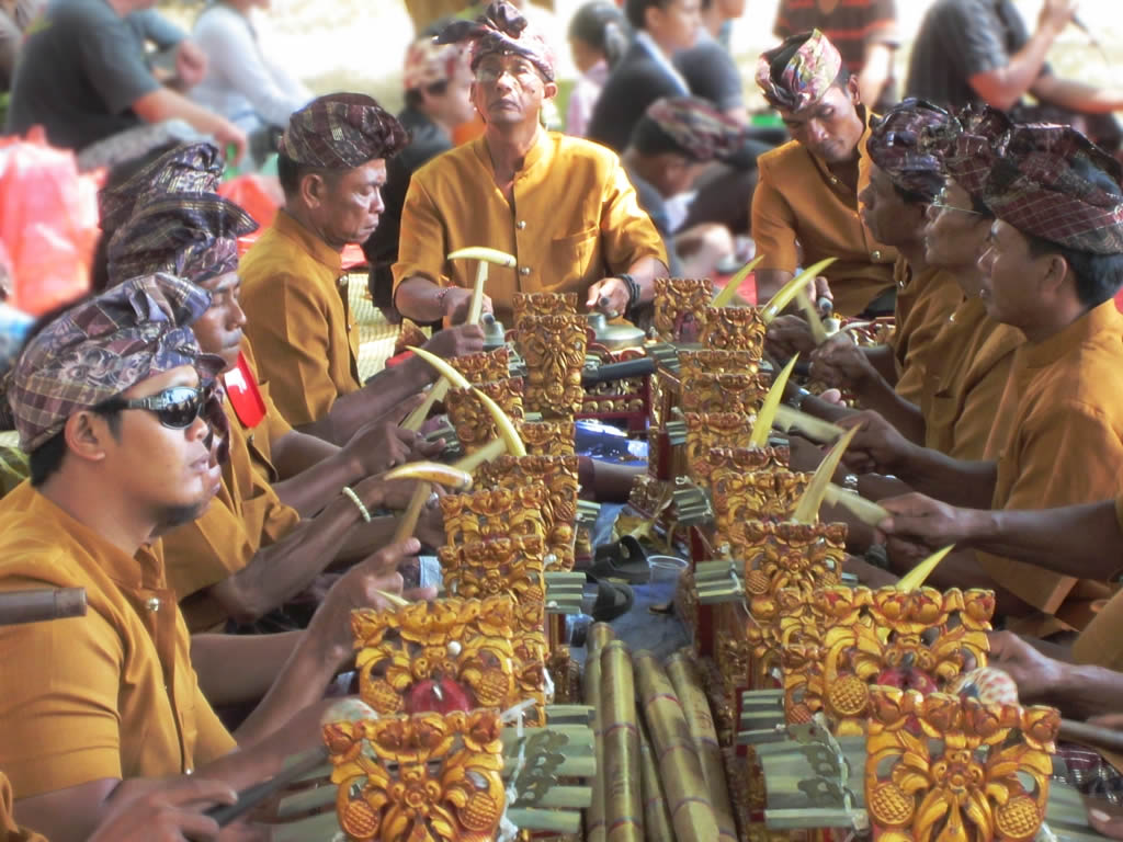 a gamelan orchestra playing at a cremetion ceremony on Kuta Beach, Bali